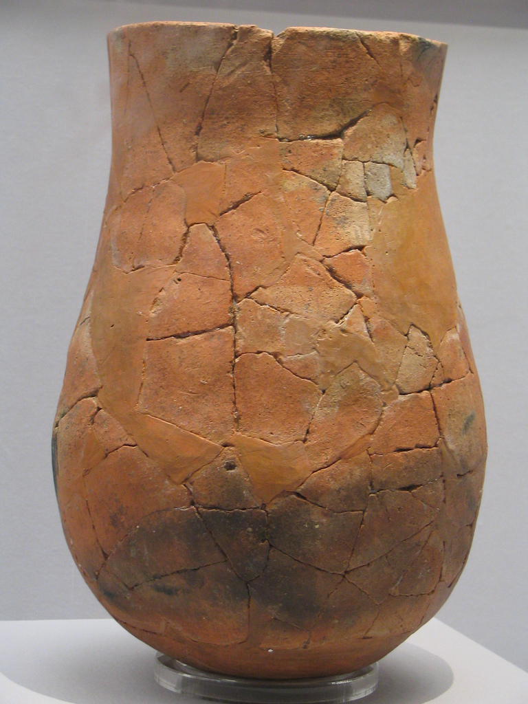 Bowl. Jeulmun Pottery, Korean Neolithic. Southern Coastal region. Gadeokdo island, Busan. Excavation 2010-2011. National Museum of Korea.